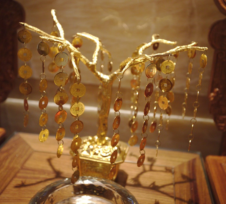 A modern 'money tree' observed in Yunnan, China, 2015-12-01.